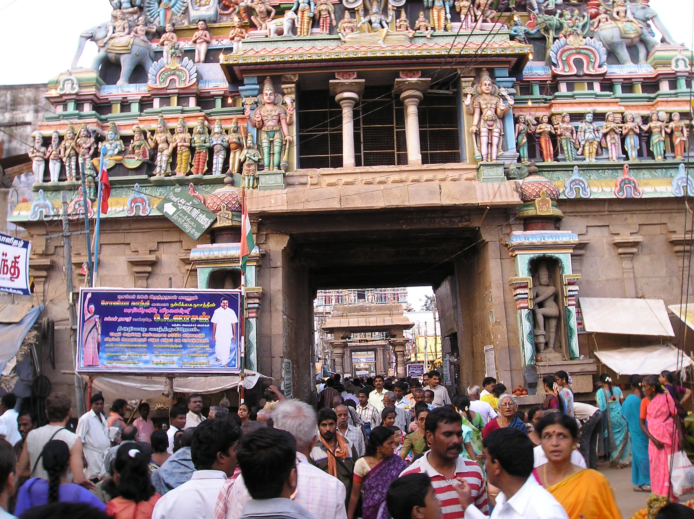 Srirangam temple vaikunta ekadesi2